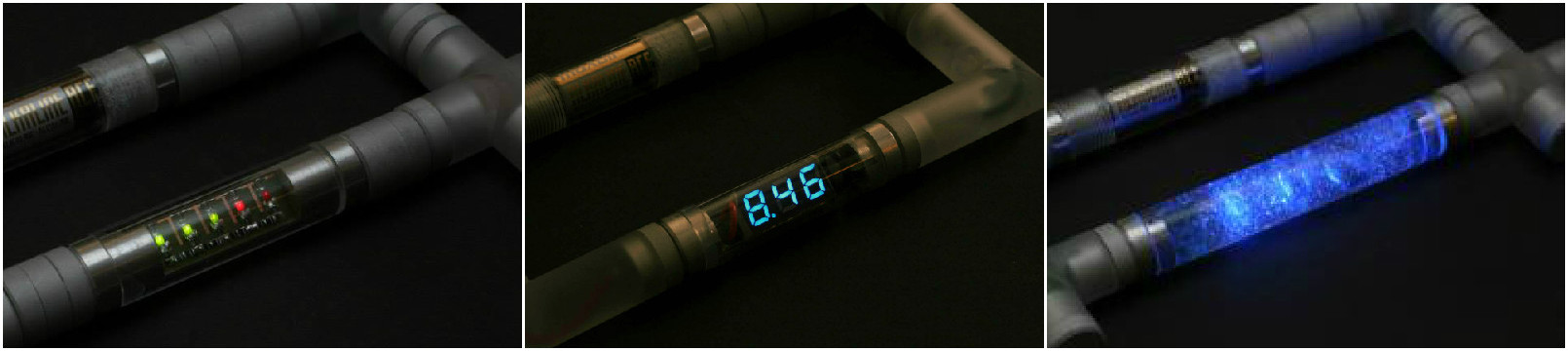 Special elements